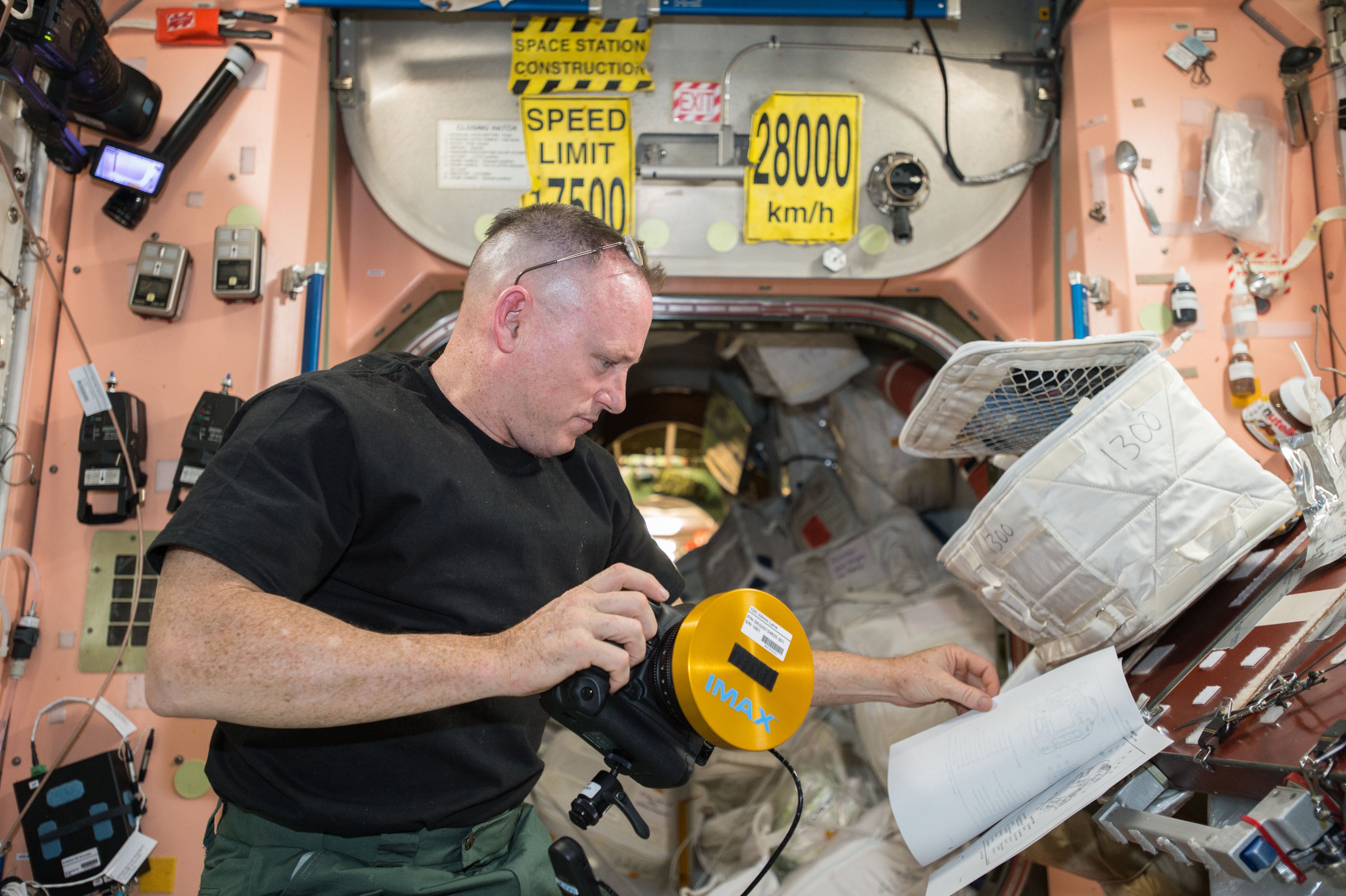 NASA astronaut Butch Wilmore reads up on the finer points of using the IMAX camera on the International Space Station. Launched to the station in October 2014, the camera will capture footage for a documentary called "A Perfect Planet."